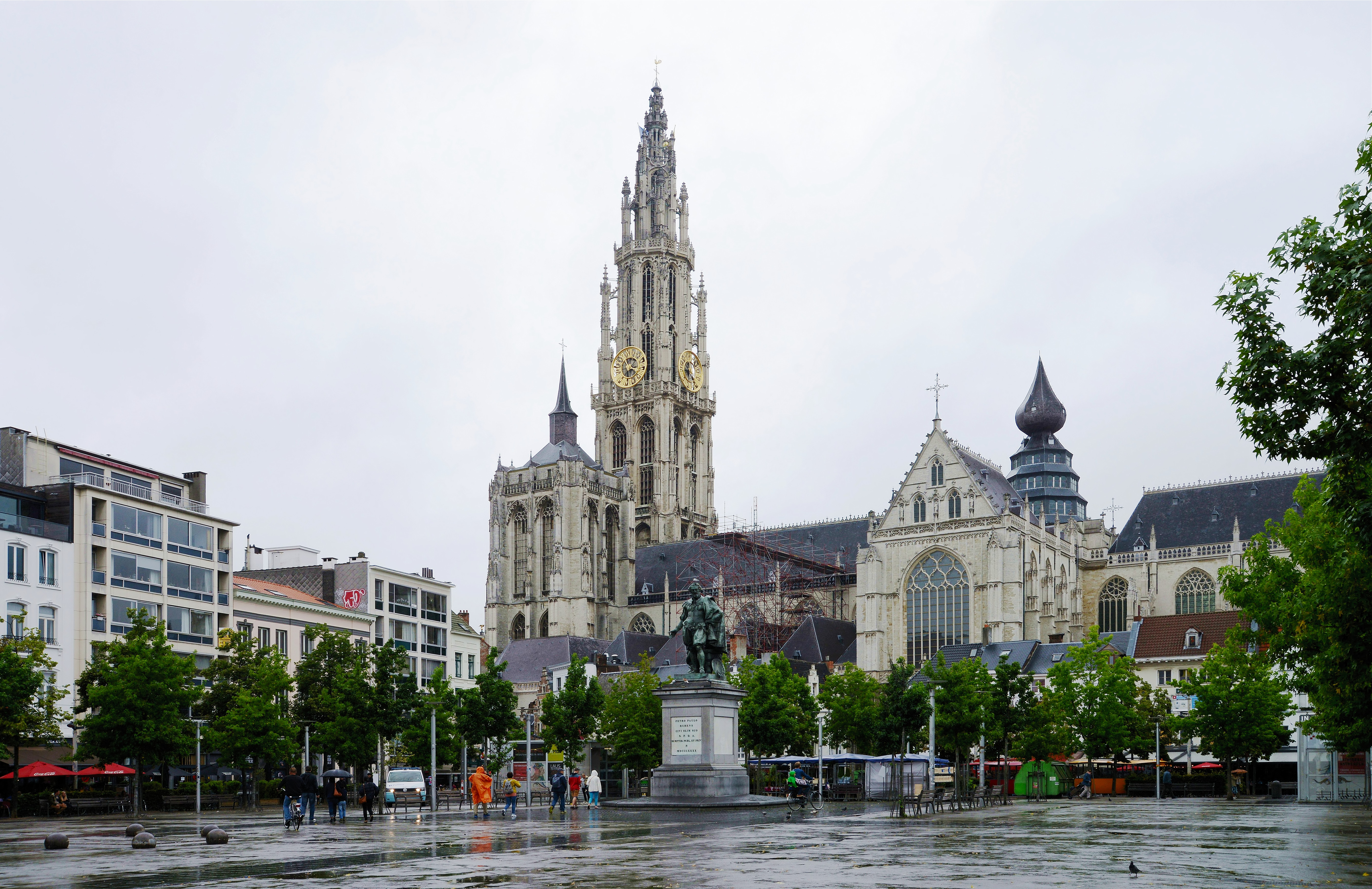 The Cathedral of Our Lady in Antwerp, viewed from the Groenplaats (Green Square)